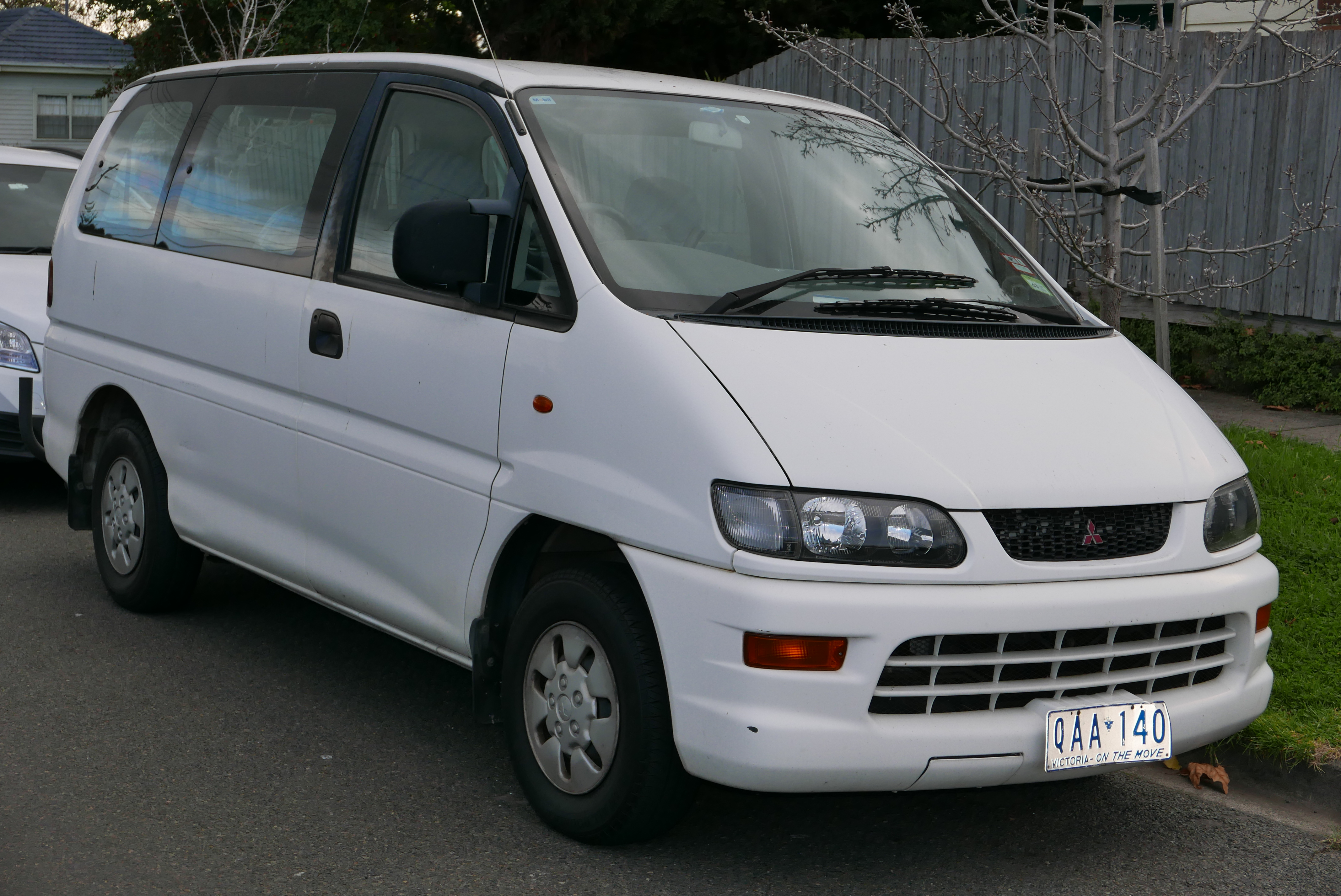 1999 Mitsubishi Starwagon (WA) GLX van. Photographed in Fairfield, Victoria, Australia. Vehicle registration enquiry results Jurisdiction Victoria Registration QAA140 Chassis code JMFNEPA4WYA000263 Engine code 4G64AX1942 Compliance date 1999-12 Year of manufacture 2000 (not a typo)